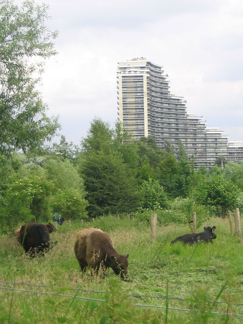 Sustainable green spaces : cows grazing in Scheutbos park in Brussels